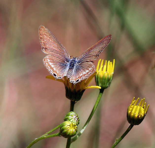 African Babul Blue Azanus jesous . Shot taken at Kasol (6500 ft.), Kullu distt. of Himachal Pradesh, India during Sar Pass Trek.